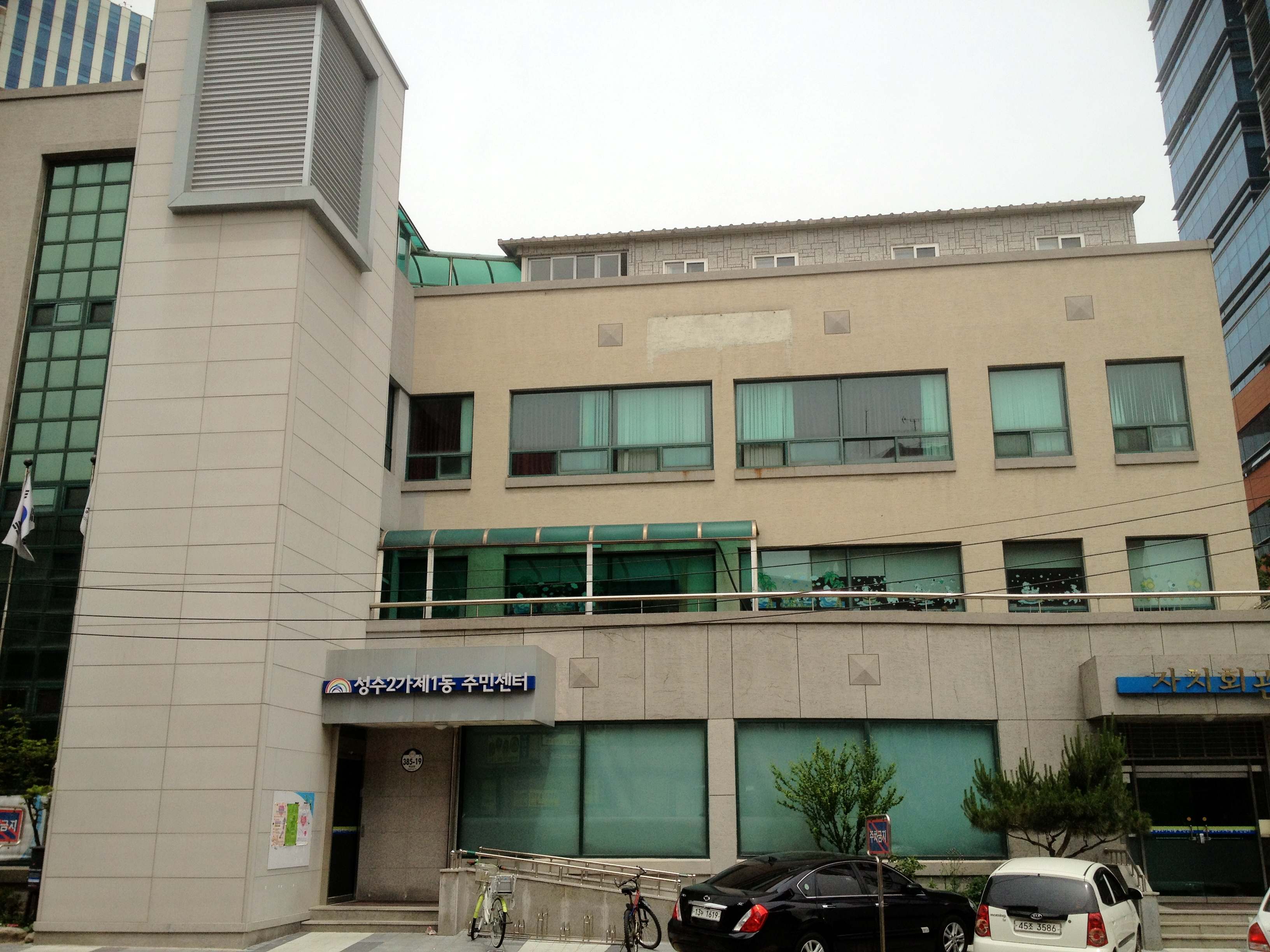 Seongsu 2-ga 1-dong Comunity Service Center(Seongdong-gu)